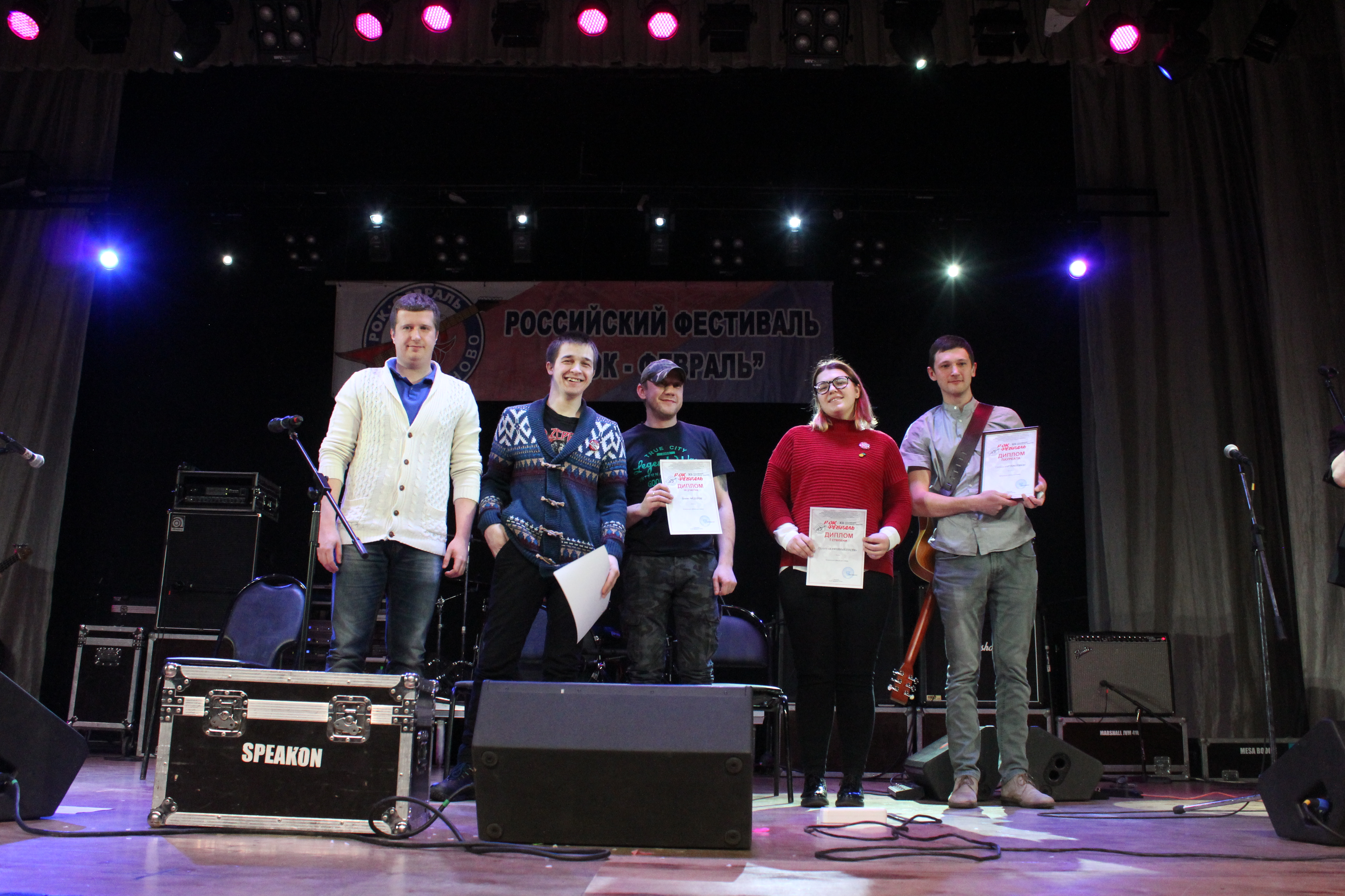 Представители комитета молодежной политики, физической культуры и спорта Администрации города Иванова поздравляют победителей в номинации "Рок в акустике": "Артематика" и "Каменные гости".